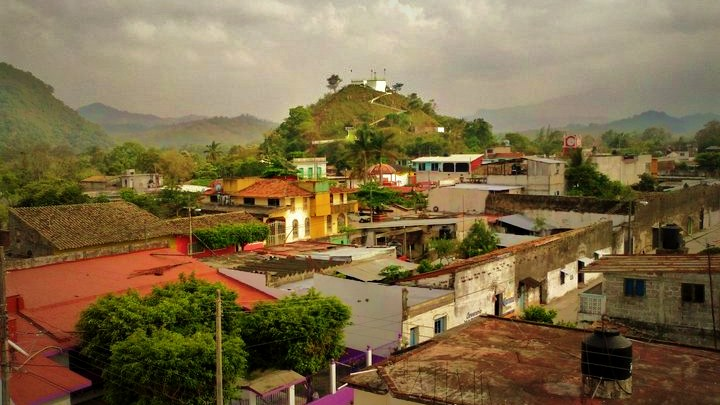 Colipa seen from the San Francisco's Church.